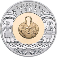 Coin of Ukraine